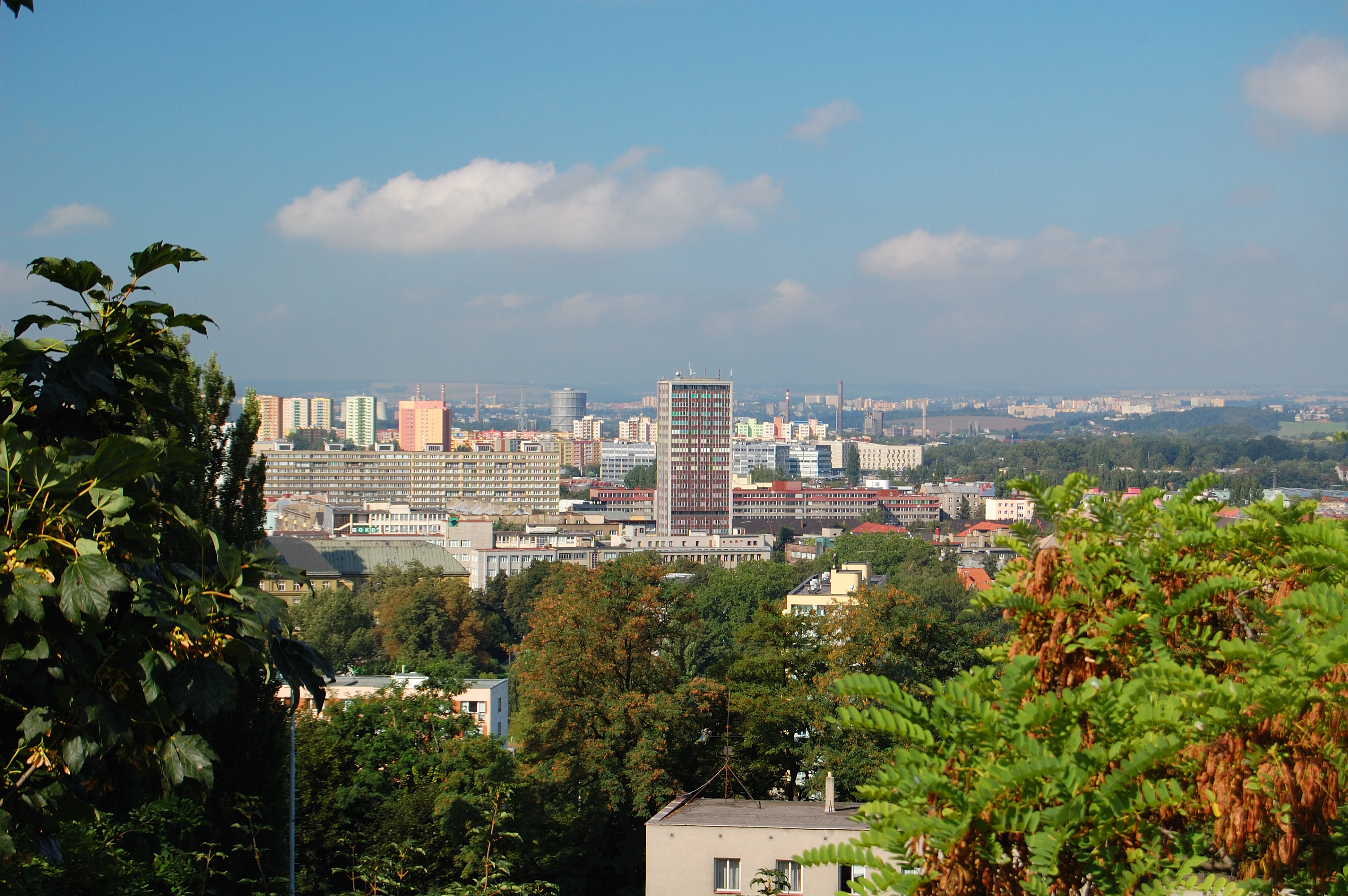 A view of the city of Ostrava, Czech Republic from the Bazaly soccer stadium.